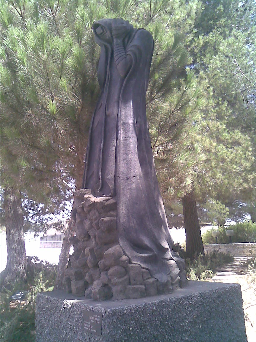 The original statue "silent cry" (basalt, 250 cm) is shown in Yad Vashem Museum in Jerusalem, and describes the cry of the Jewish people during the Holocaust הפסל המקורי "זעקה אילמת" (אבן בזלת, 250 ס"מ) מוצג במוזיאון יד ושם בירושלים.